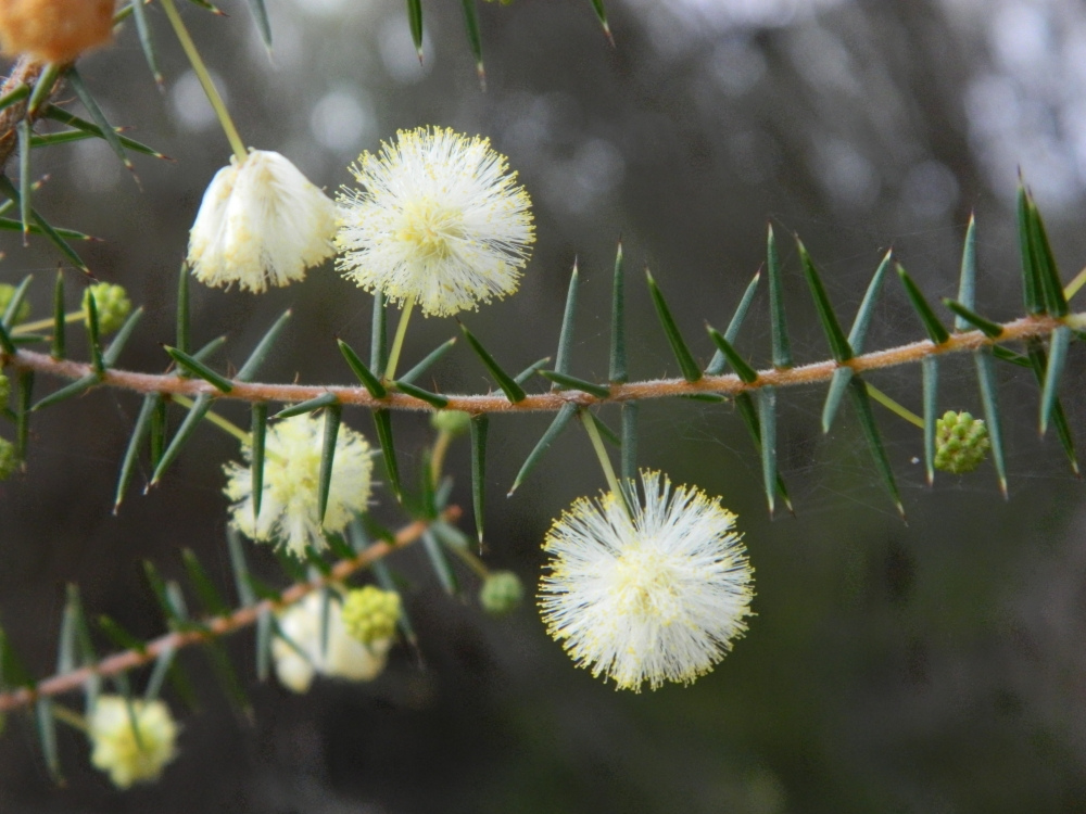 Taken at the Royal National Park, Sydney. Near Wattamolla. A very pricky wattle: common name is "Prickly Moses".